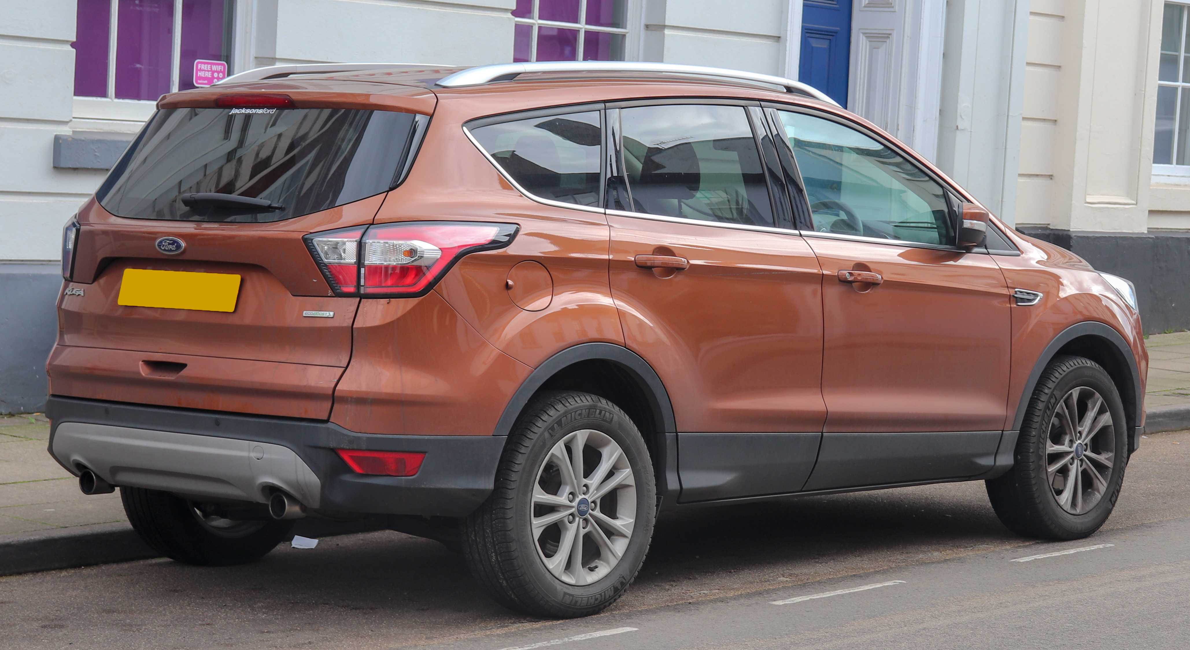 2017 Ford Kuga Titanium 1.5 Rear Taken in Warwick